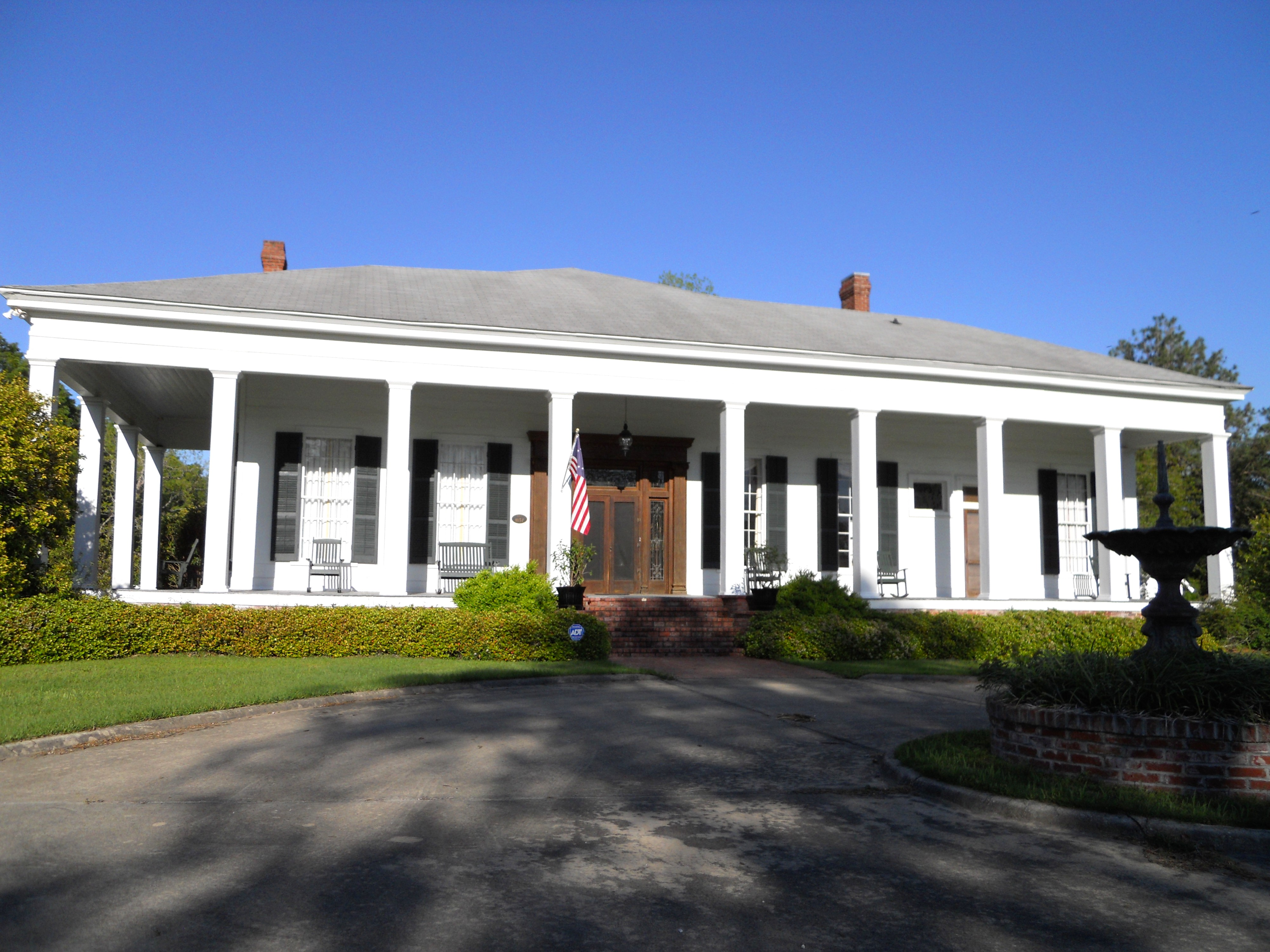 This is a photograph of the Joel Hurt House in Hurtsboro, AL.